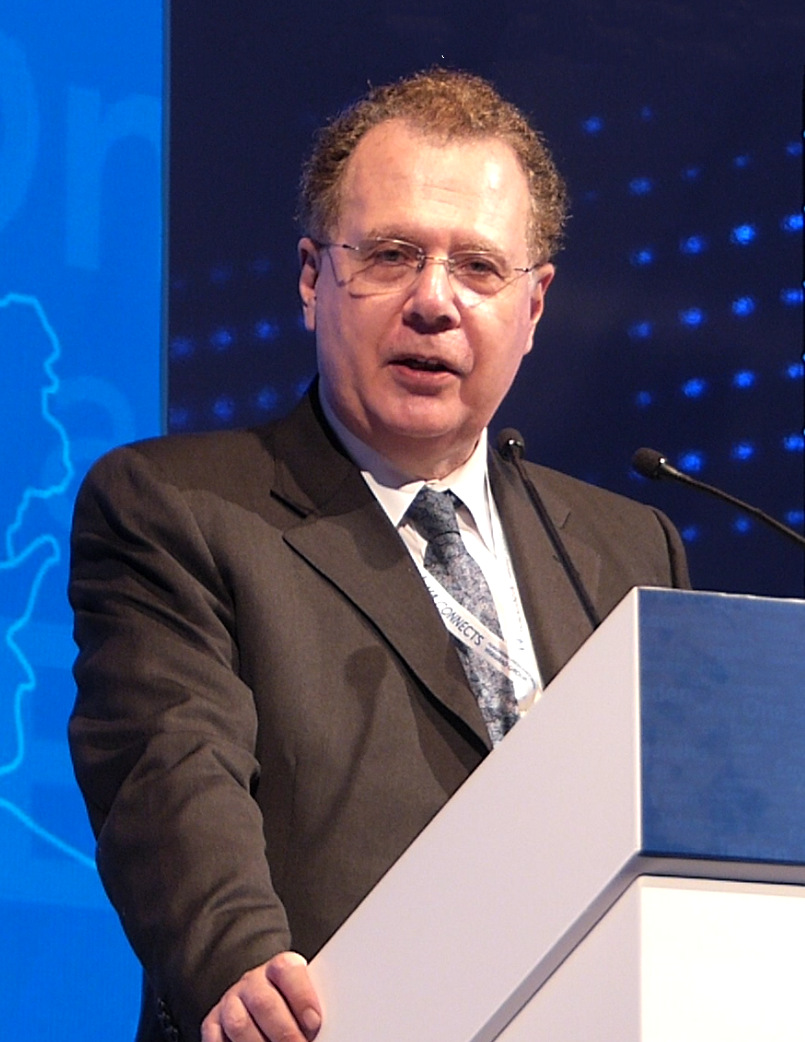 David Paul Goldman, Columnist, Asia Times; classical music critic, Tablet Magazine; former head of debt research, Bank of America, USA: To Survive, Europe Must Restore a Sense of the Sacred. The Future of Europe international conference. Second day, the 24th of May, 2018. Polgári Magyarországért Alapítvány, XXI. Század Intézet, V4 Connects. Várkert Bazár, Budapest, Hungary, Central Europe.